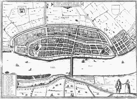 Map of Kampen in 1580